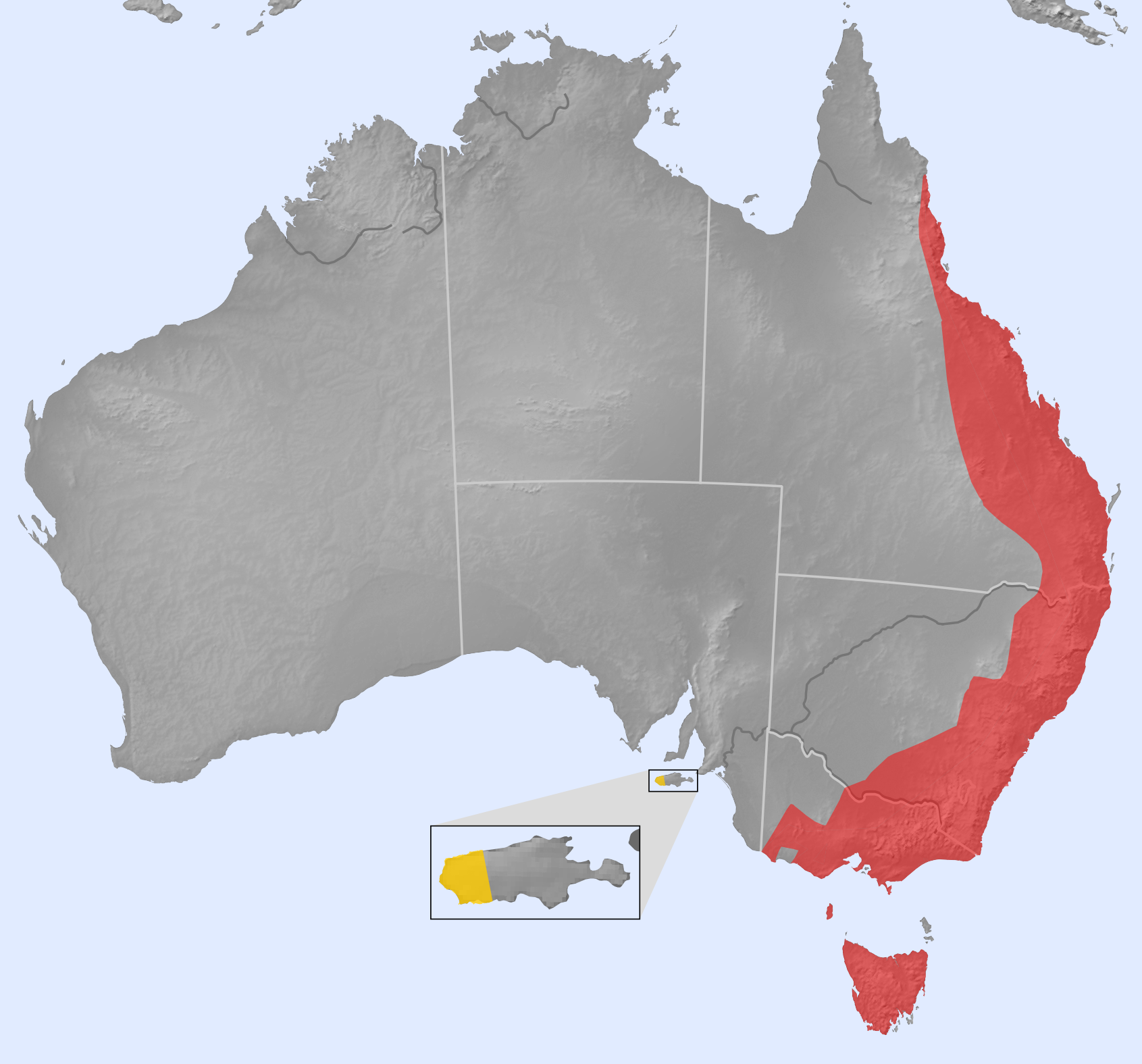 Map of the distribution of the Platypus (Ornitorhynchus anatinus), according to the IUCN database. Native populations are shown in red, the small introduced population in yellow.